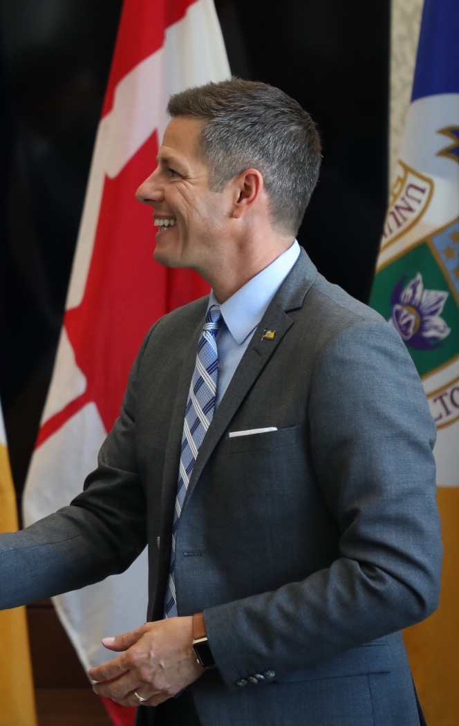 Meeting with Winnipeg Mayor - Rencontre avec le maire de Winnipeg